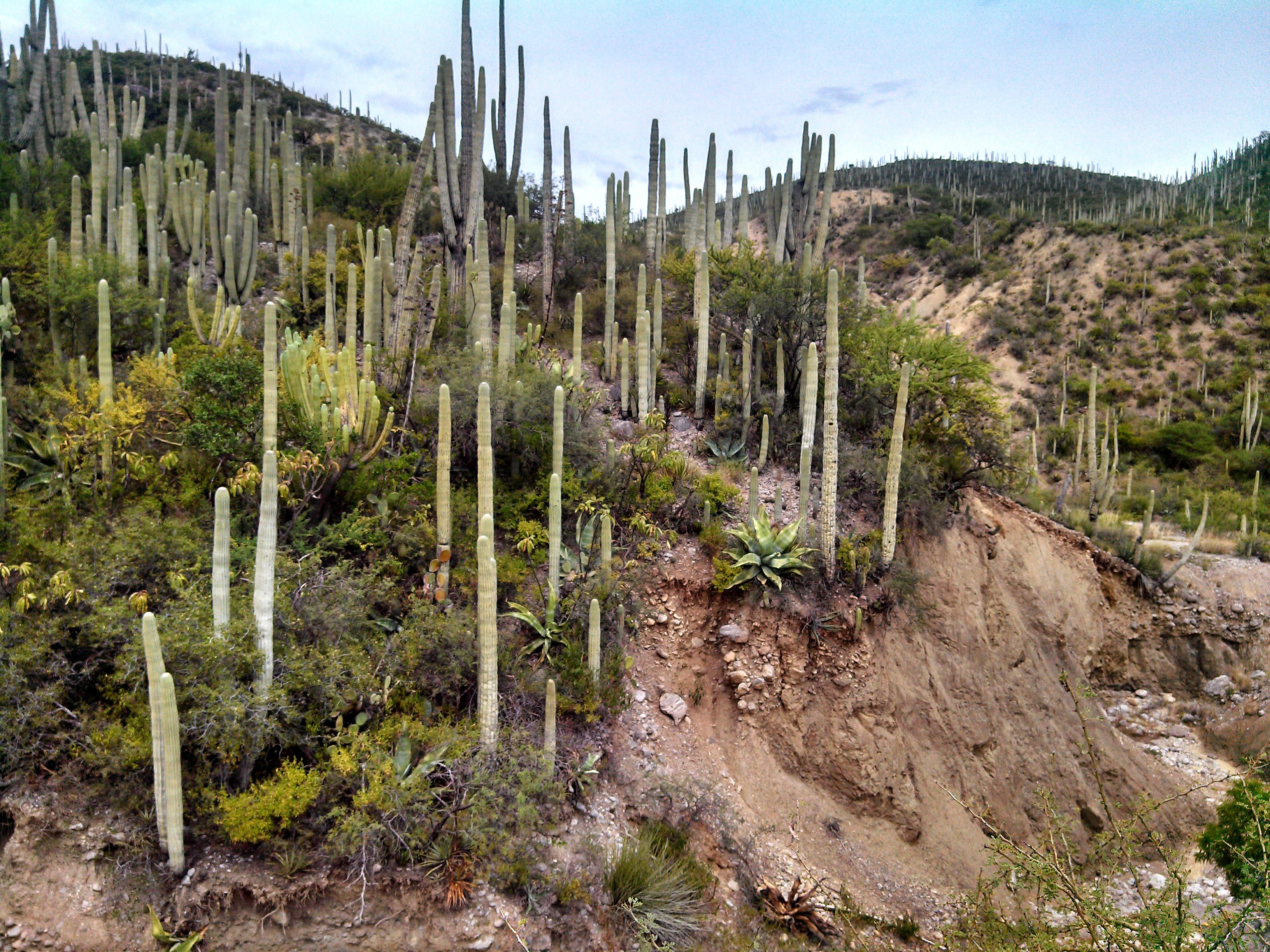 This is an image of the Biosphere Reserve: Tehuacán-Cuicatlán Biosphere Reserve